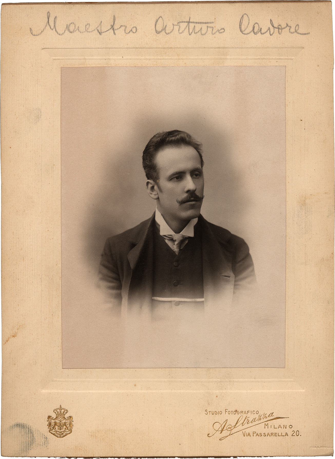 Portrait of Arturo Cadore, composer (1877-1929). Photo by A. Strazza, Milano, before 1929.